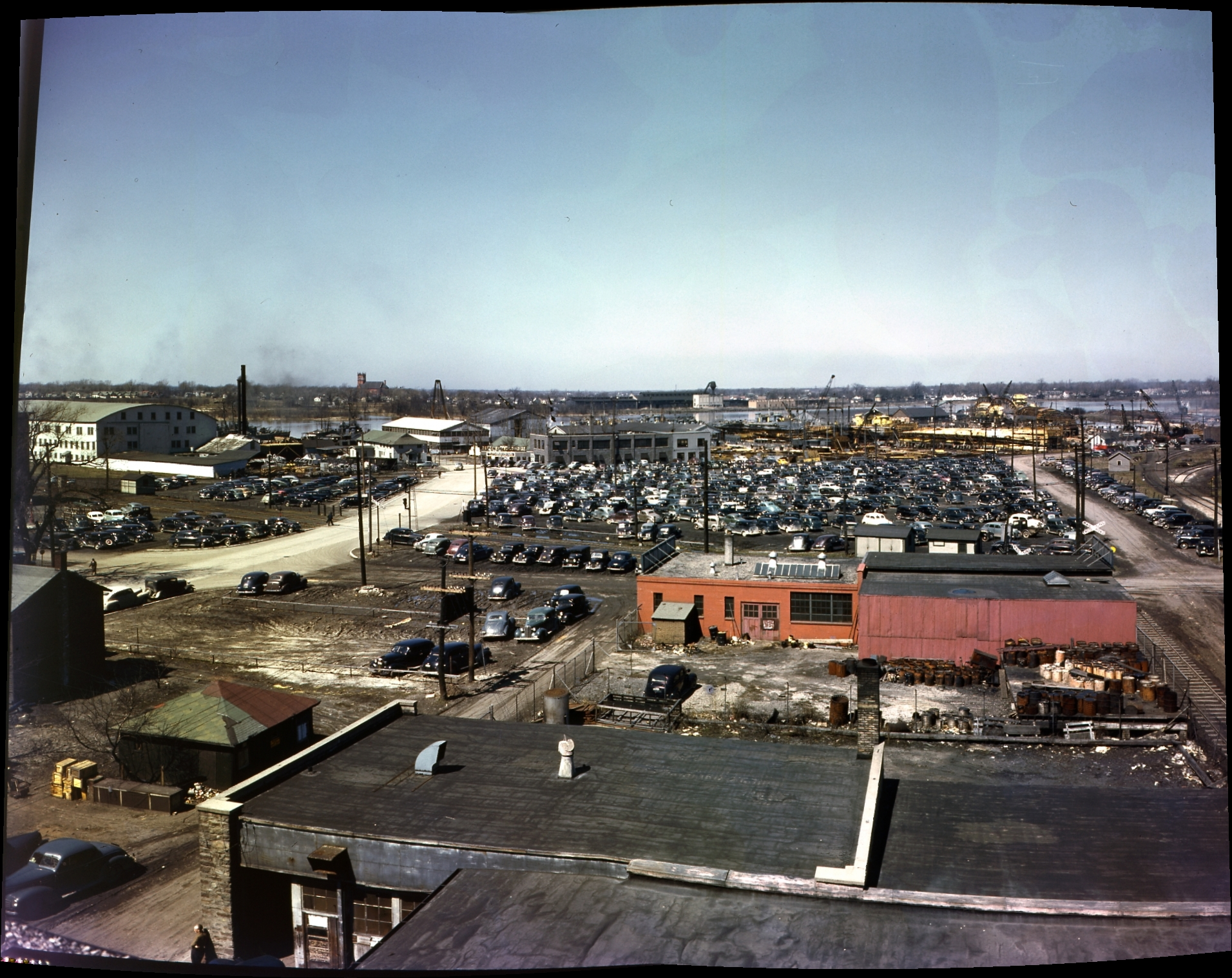 Defoe company yards with Saginaw River. 1944 WWII Shipbuilding Bay City western skyline